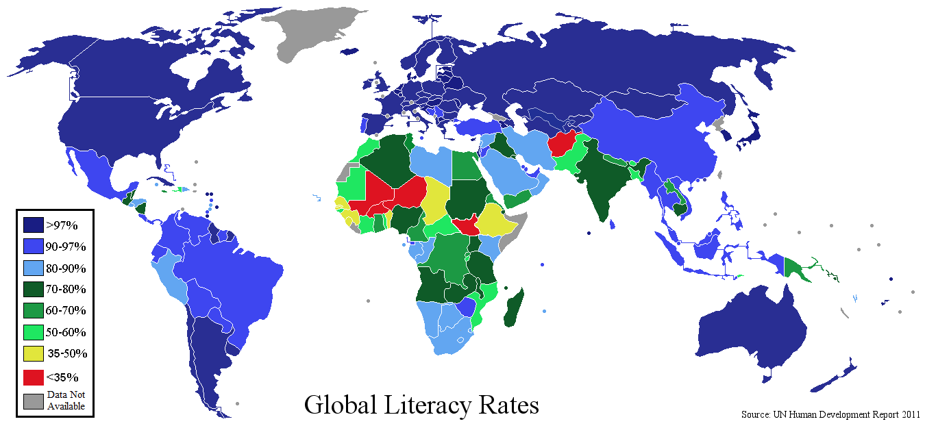 Map of Countries by Literacy rate